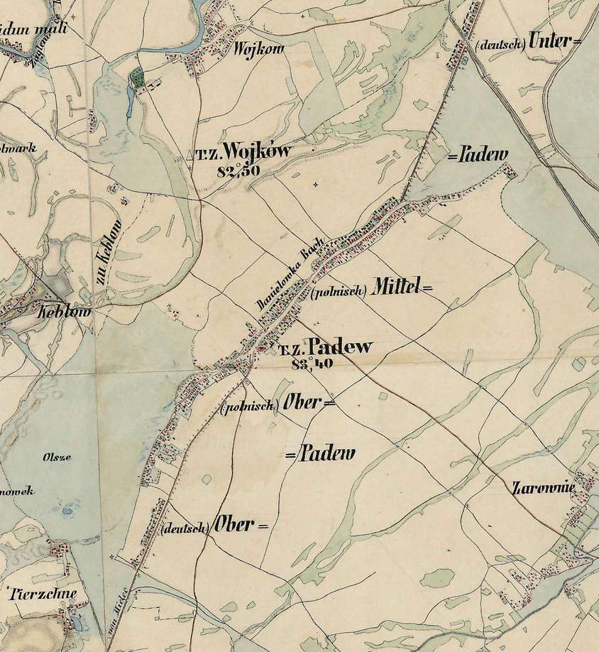 Padew on an austrian map from around 1855